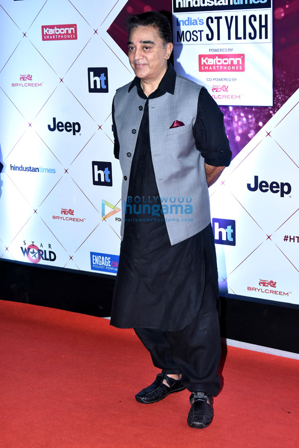 Kamal Haasan at the 2018 HT Style Awards